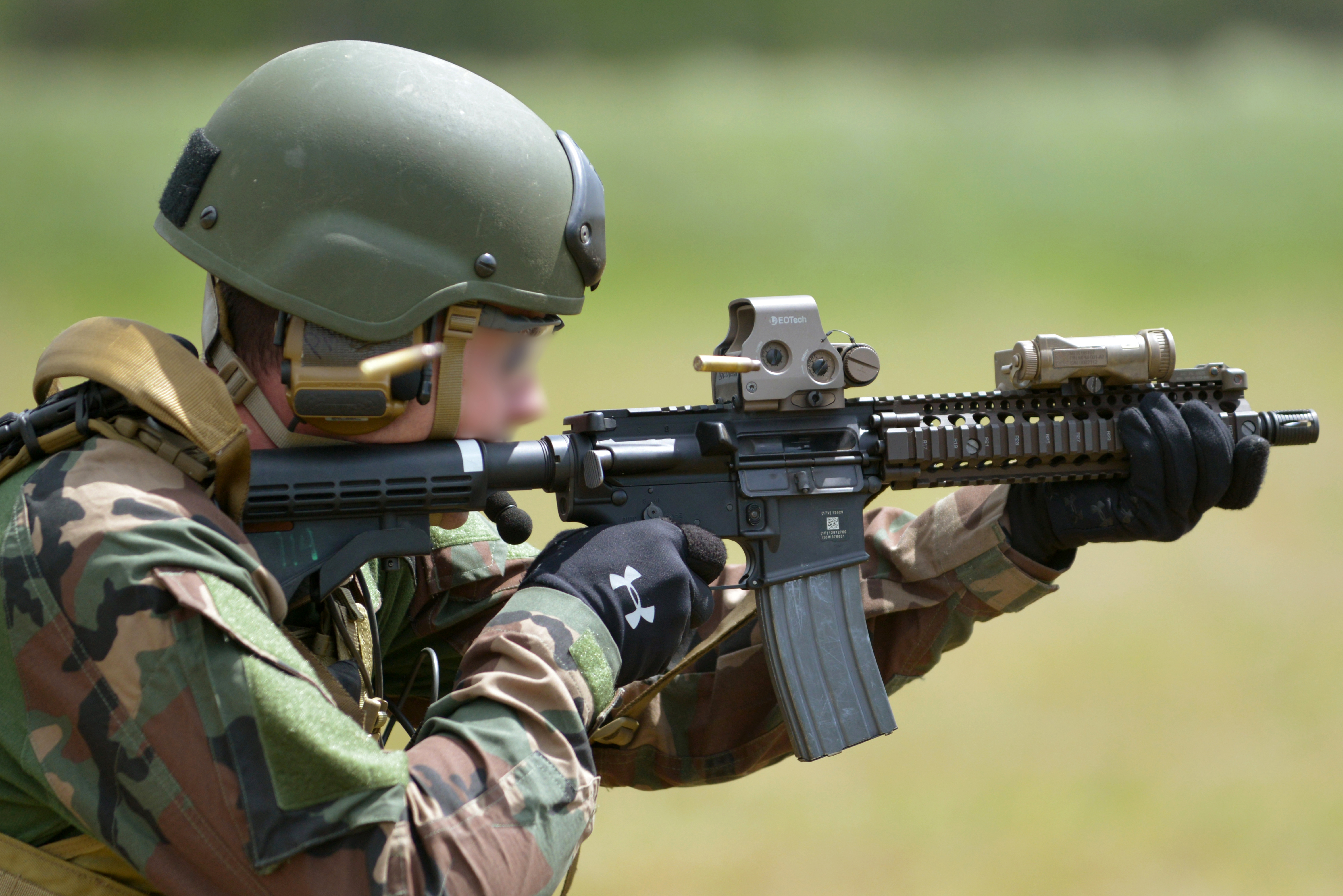 U.S. Marine Critical Skills Operators from United States Marine Corps Forces Special Operations Command conduct combat marksmanship training to prepare for Exercise Combined Resolve II at Grafenwoehr Training Area, Germany, May 15, 2014. The exercise is a U.S. Army Europe-directed multinational exercise at the Grafenwoehr and Hohenfels Training Areas, including more than 4,000 participants from 13 allied and partner countries including special operations forces from the U.S., Bulgaria and Croatia interoperability training during the exercise to promote security and stability among NATO and European partner nations. (U.S. Army photo by Visual Information Specialist Gertrud Zach/Released)